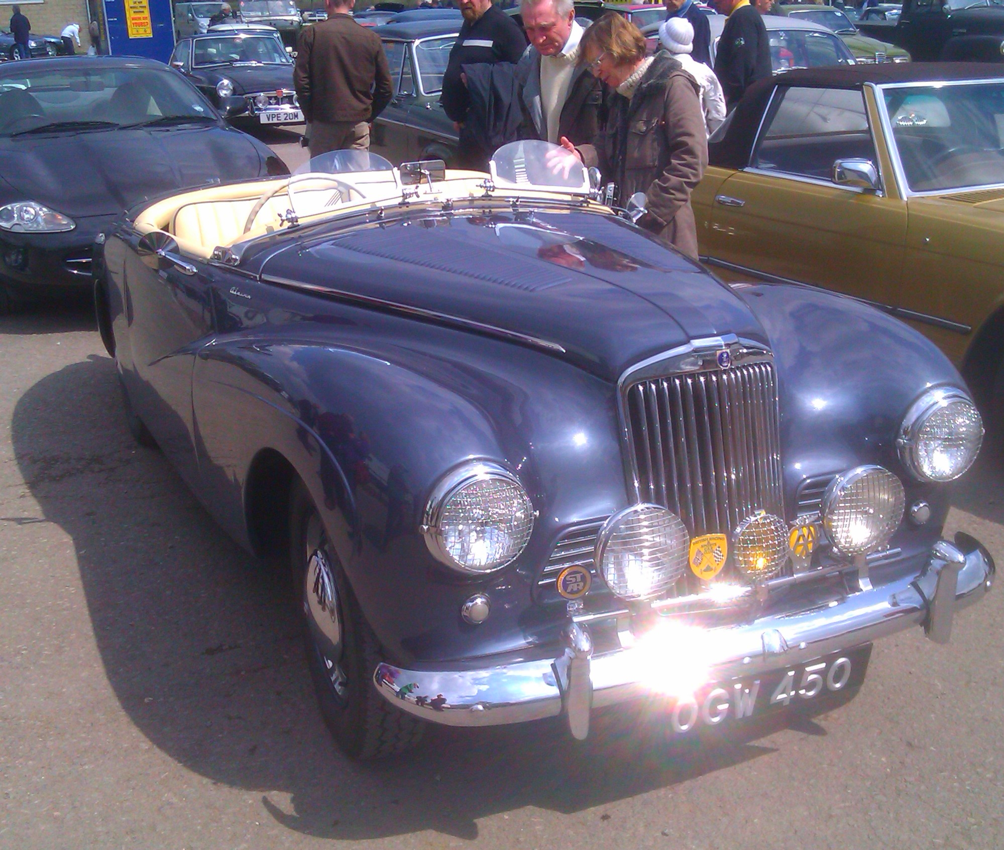 Sunbeam Supreme 1953 (DVLS) first registered 12 November 1953, 2267cc Footman James Bristol Classic Car Show 20th April 2013